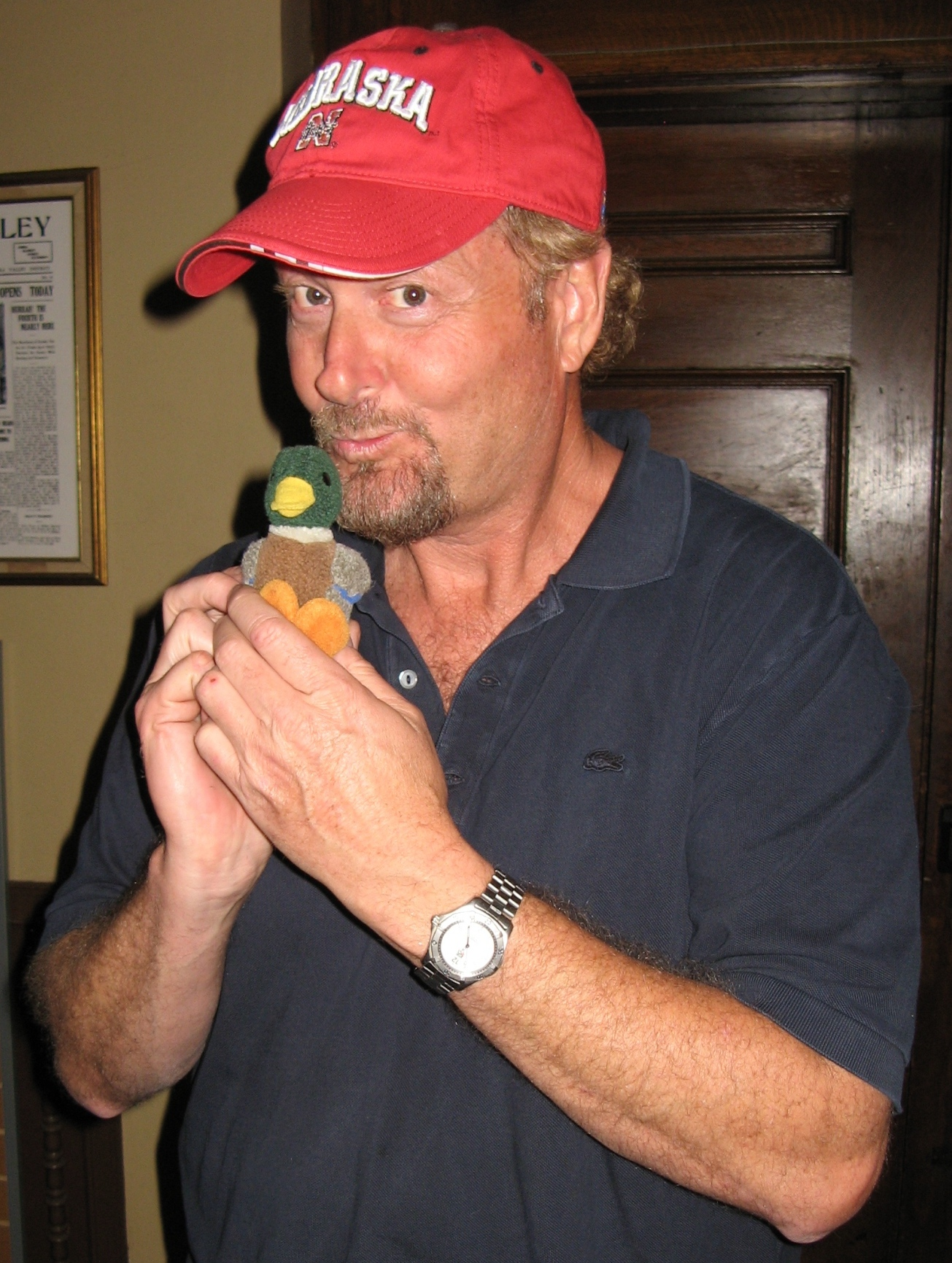 This is my photo of Savage Steve Holland, taken after a screening of Better Off Dead at the Castro Theatre in San Francisco.